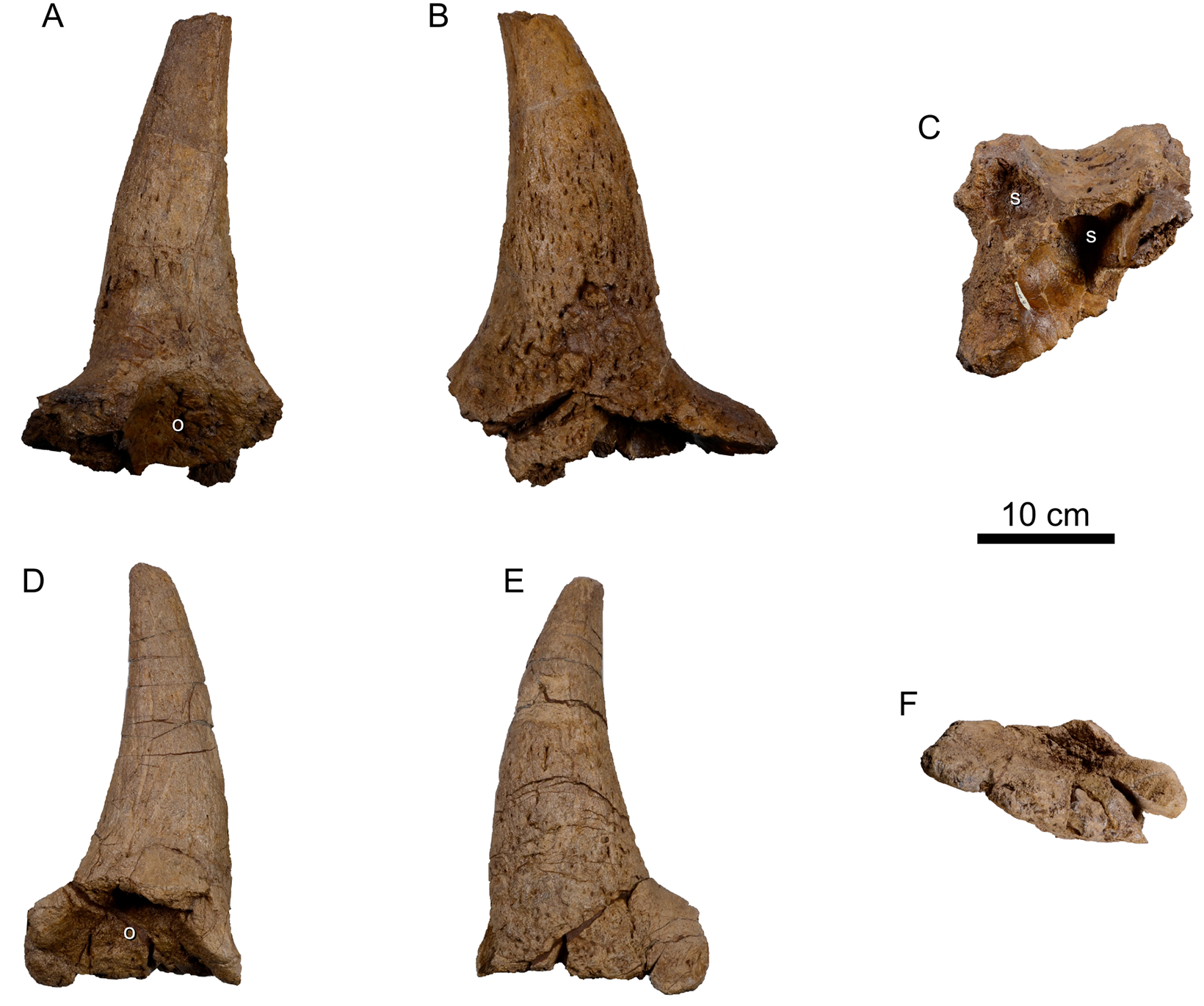 Right postorbital horncore of Spiclypeus shipporum (CMN 57081) in ventrolateral (A), dorsomedial (B), and ventral (C) views; left postorbital horncore of S. shipporum (CMN 57081) in ventrolateral (D), dorsomedial (E), and ventral (F) views.